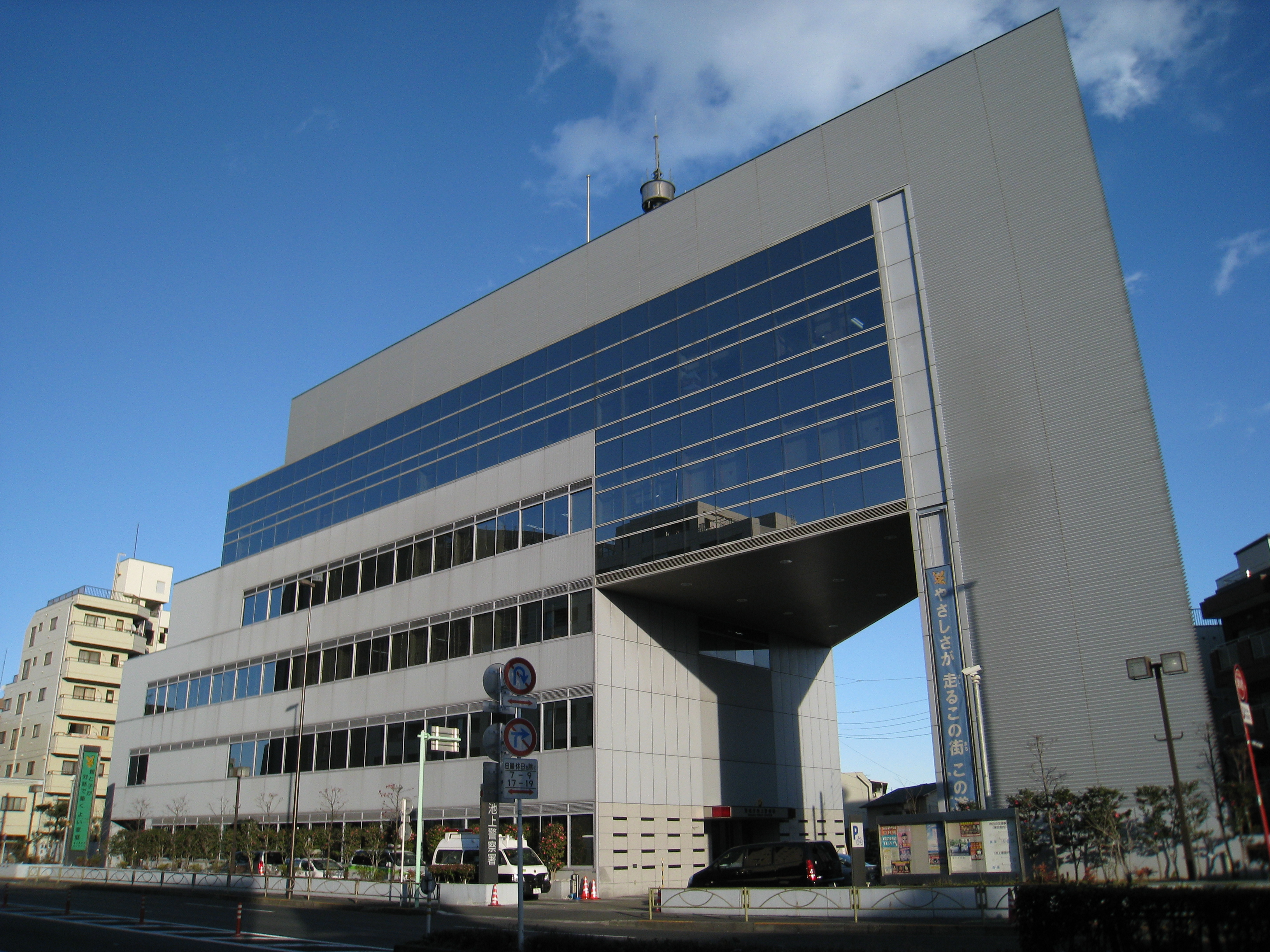 Ikegami Police Station